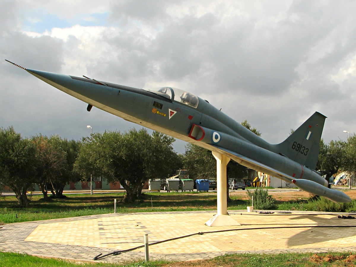 Northrop F-5A-30 of the Hellenic Air Force. Tail no. 66-9133, c/n N.6237, first flight 06-12-66, preserved at Kastelli air base.